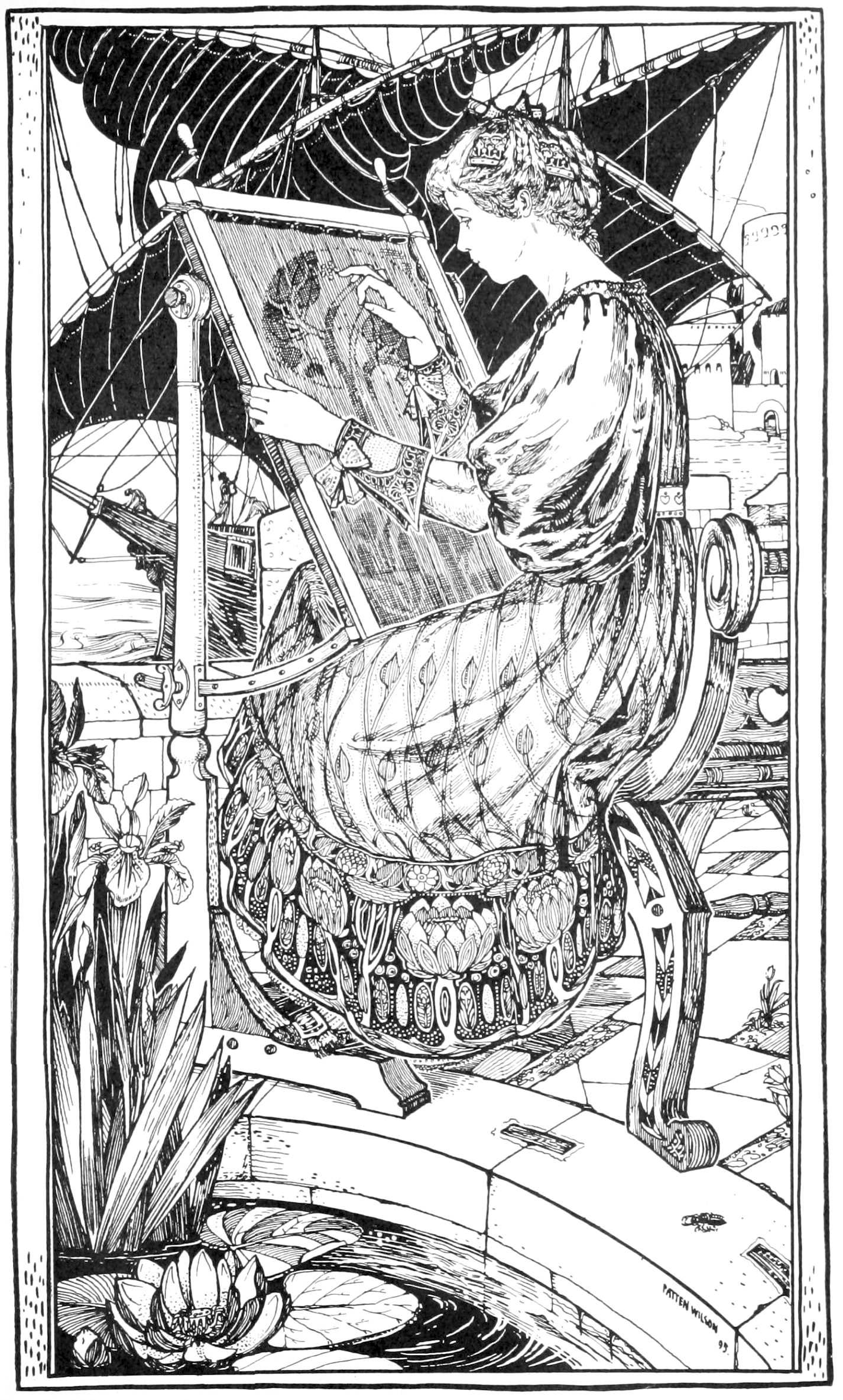 Illustration from Volume 6 of The Yellow Book, "A Penelope"